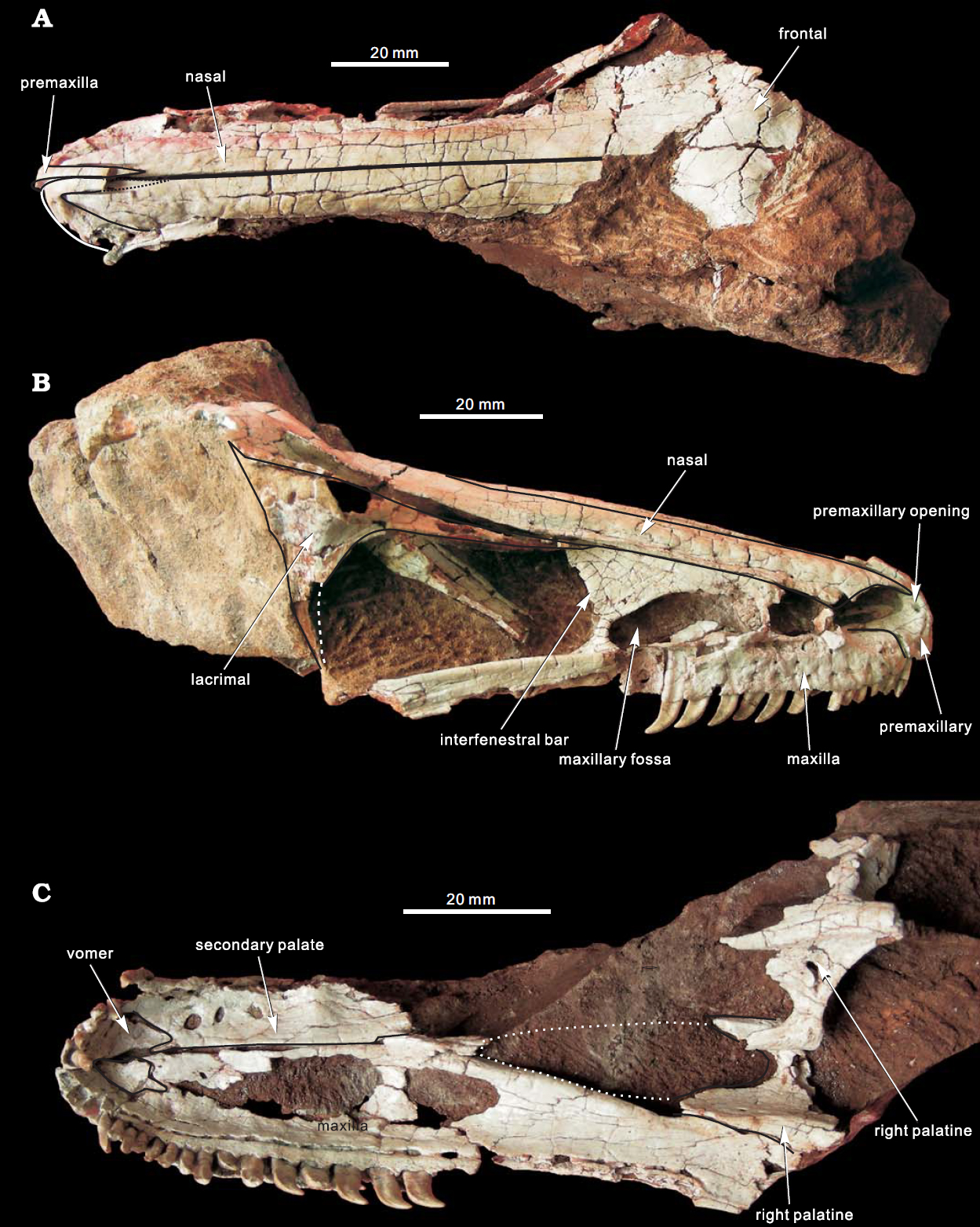 Skull of troodontid theropod Xixiasaurus henanensis gen. et sp. nov. (HGM 41HIII−0201; holotype), lower– middleMajiacun Formation (Upper Creta− ceous: Coniacian–Campanian), Henan Province, China; in dorsal (A); lateral (B), and ventral (C) views.